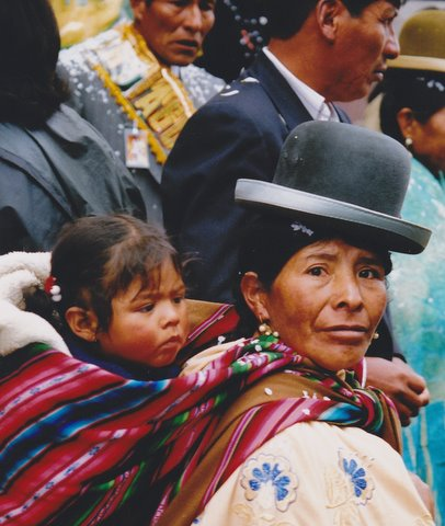 Mother and child in Bolivia